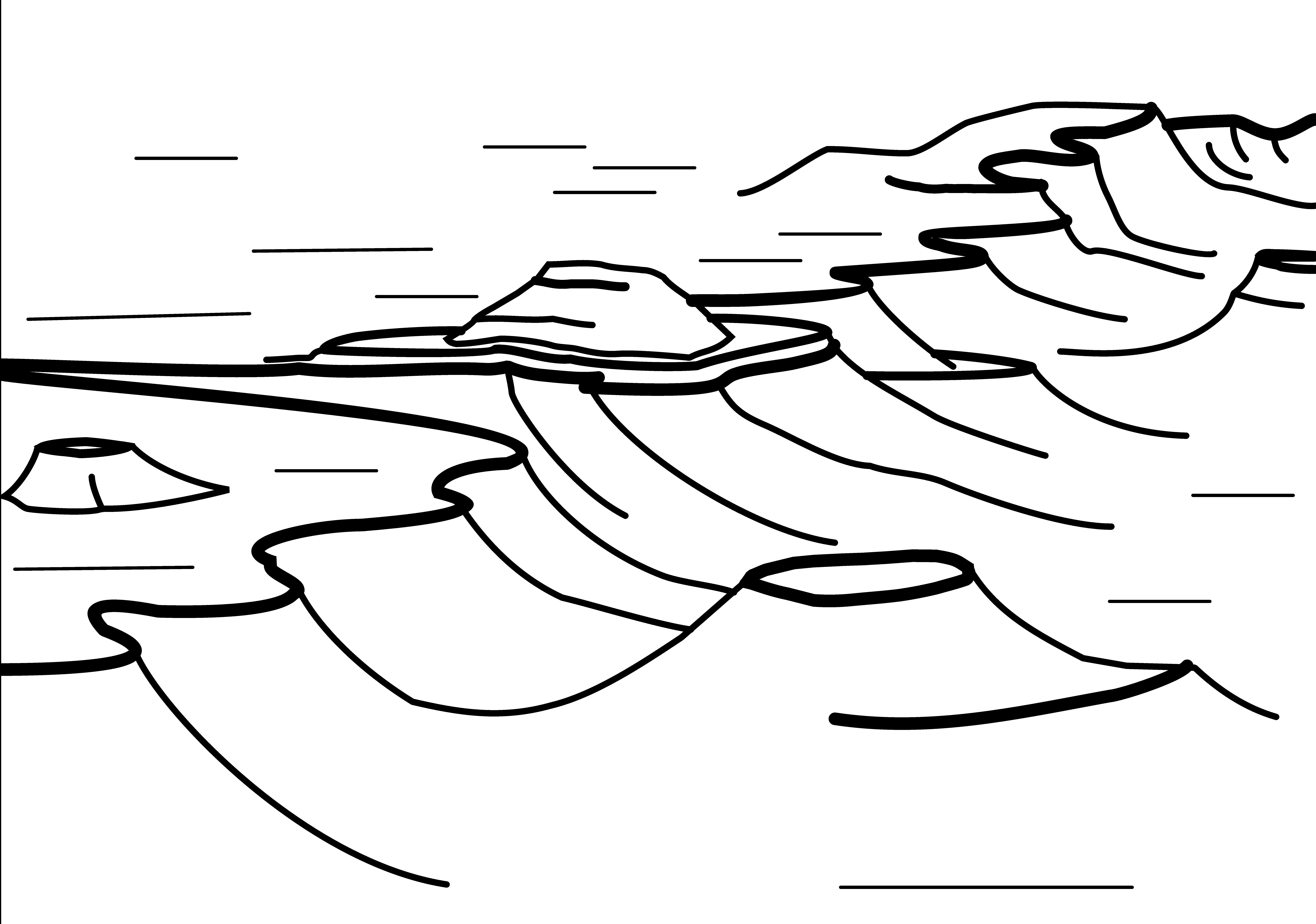 A stylized illustration of the South African Great Escarpment, based particularly on its appearance in the Great Karoo, where thick erosion resistant dolerite sills generally form the upper, sharp edge of the escarpment. Note the island remnants of the the earlier extent of the plateau on the plain below the escarpment, left behind as the escarpment has gradually eroded progressively further inland.